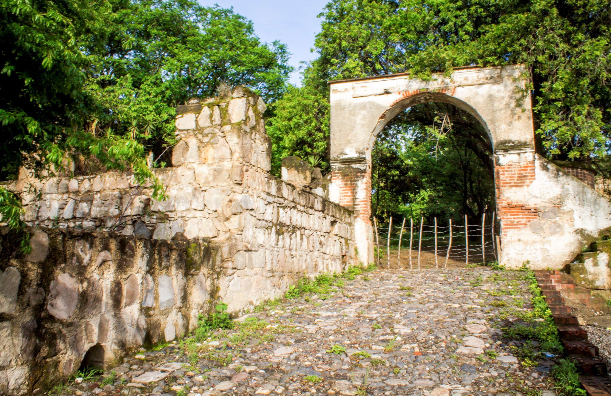 Finca en zona 5 de Villa Nueva